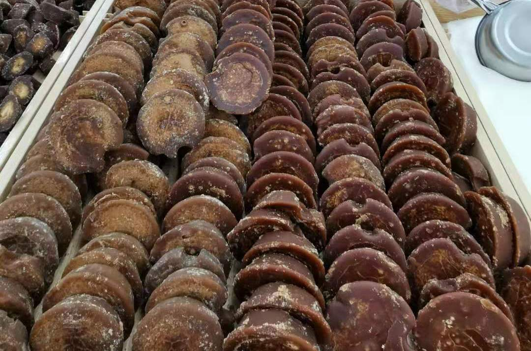 Yunnan traditional handmade brown sugar. Photo taken in a supermarket of Luxi County, Yunnan, China.